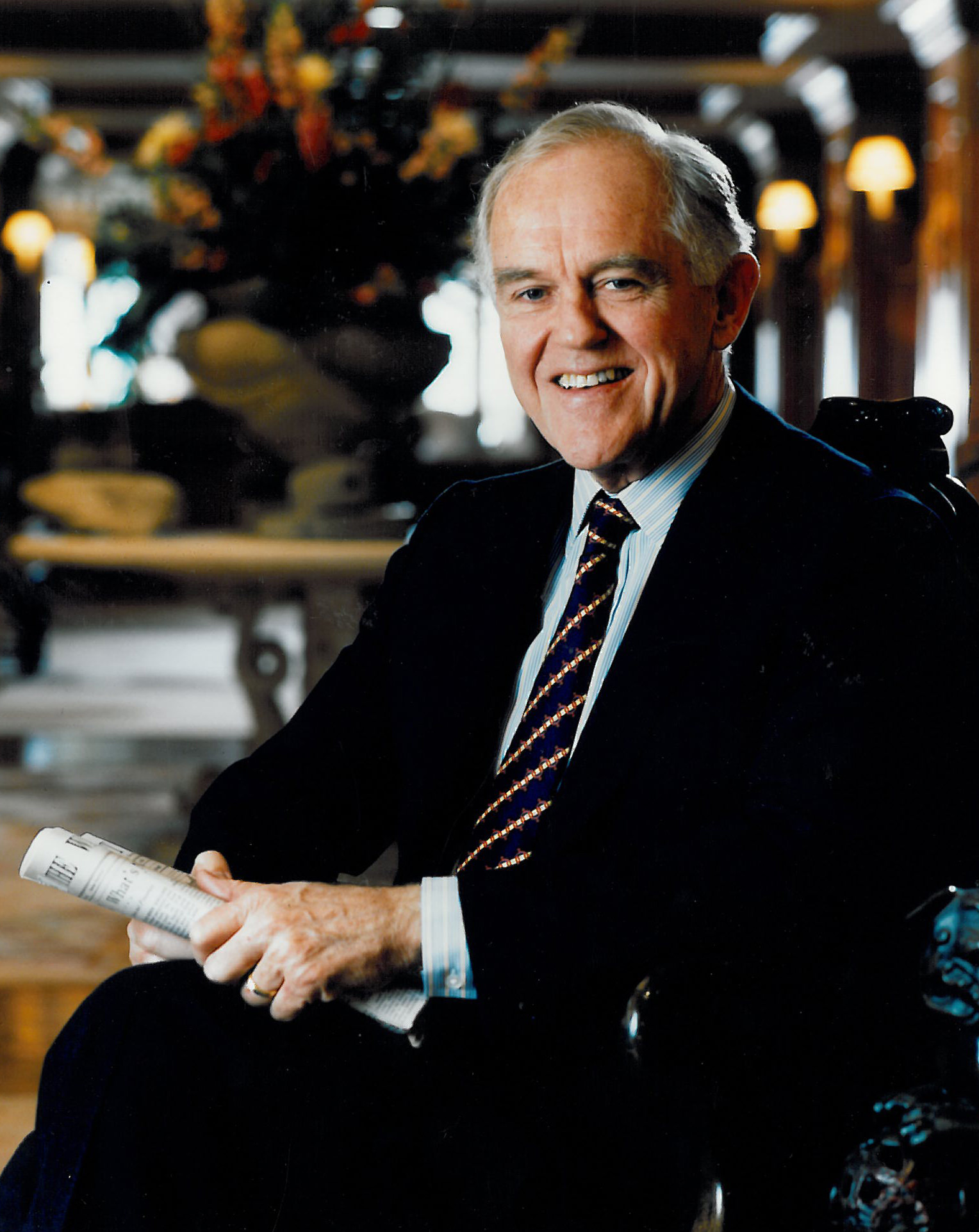 Portrait of Henry T. Segerstrom seated at the Center Club in Center Tower, Costa Mesa Henry Thomas Segerstrom, Founding Chairman of the Orange County Performing Arts Center